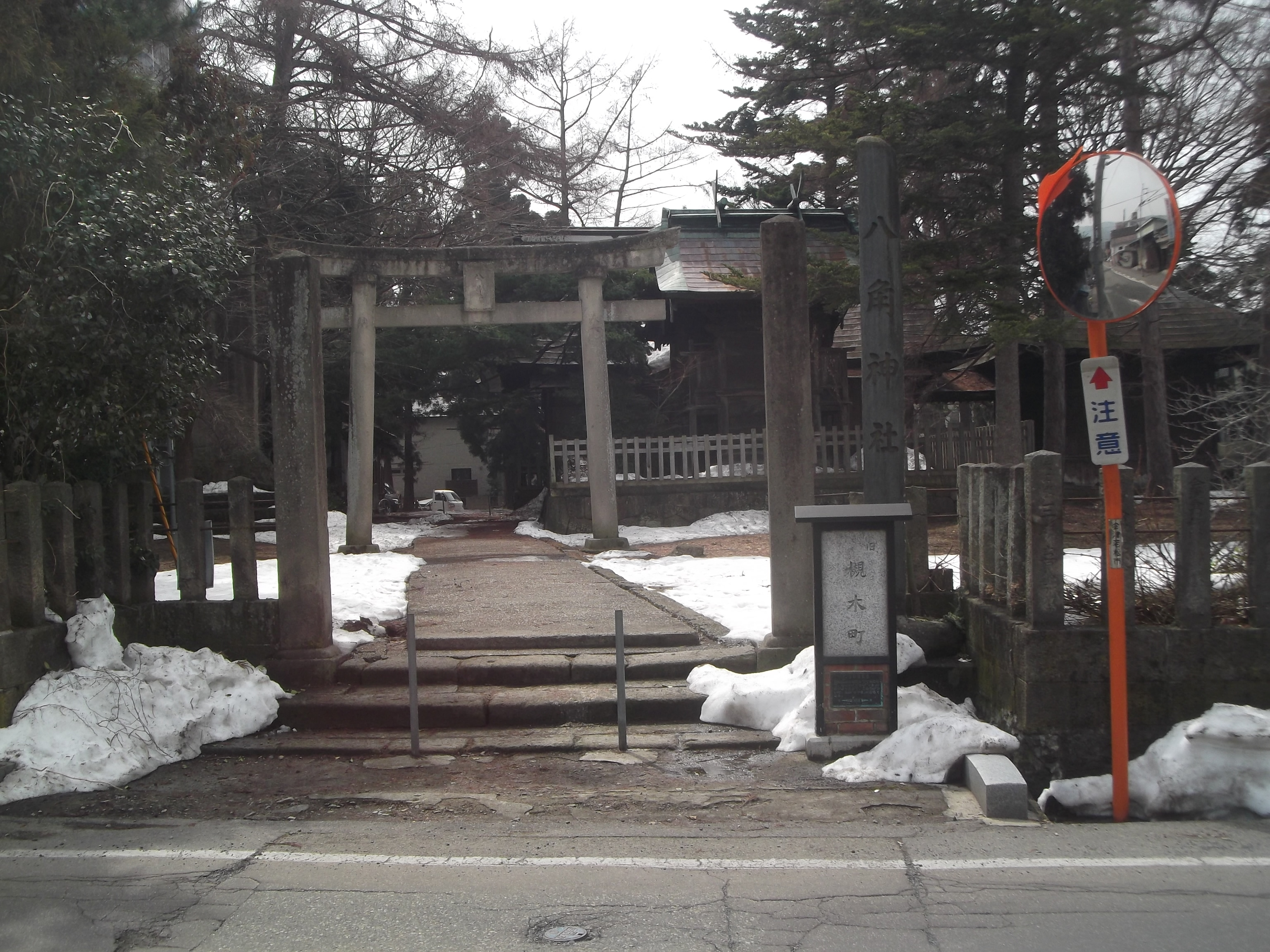 Landscape of Yasumi Shrine.